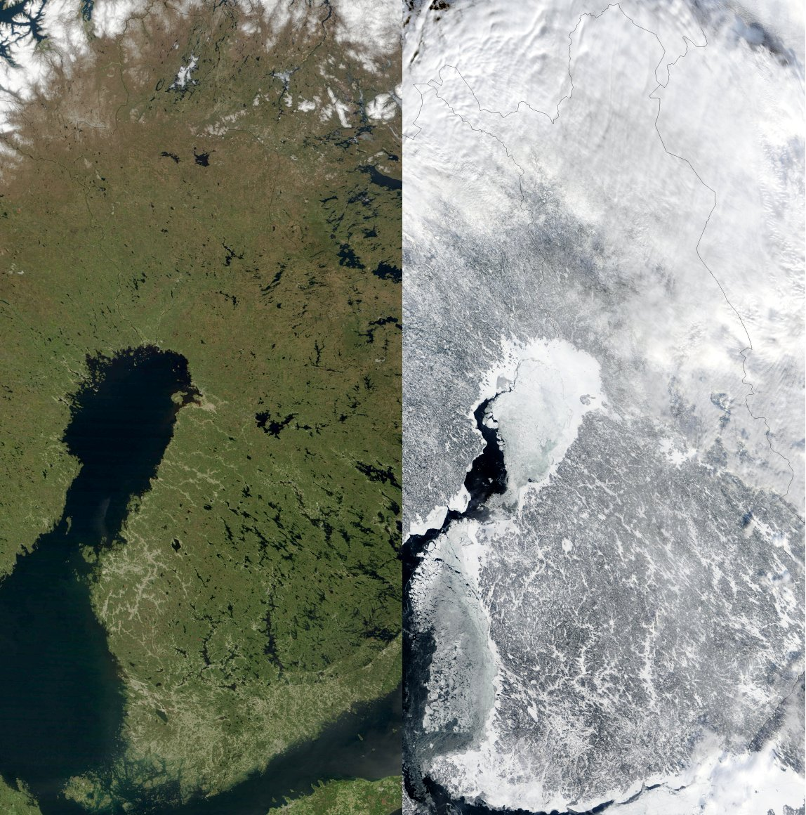 Finland from Space.